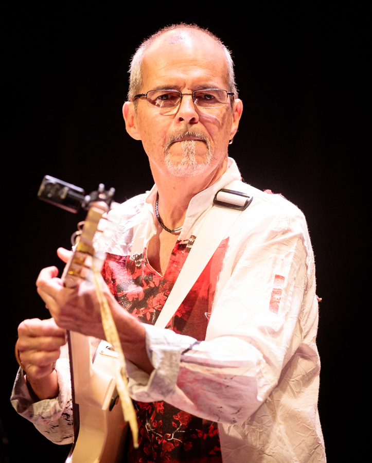 Claudio Latini at Cosmopolite. The concert took place on 08. September 2018 in Oslo. The concert was part of the 20 year jubilee celebration of Samspill International Music Network. Lineup: Claudio Latini (guitar and vocal) Joao Lobo (drums) Oddrun Lilja Jonsdottir (guitar) Gerrardo (bass guitar)